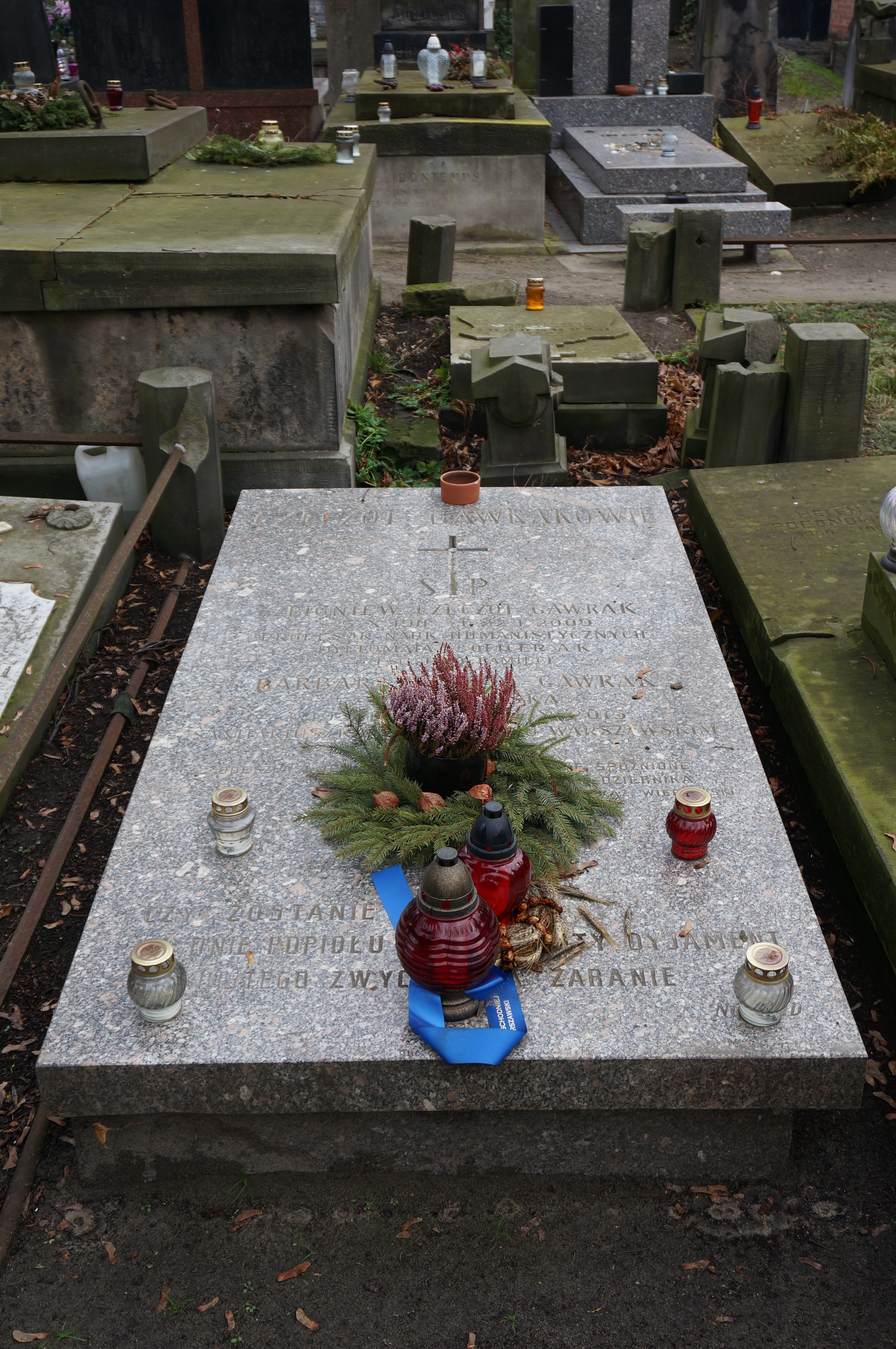 The grave of Zbigniew Czeczot-Gawrak at the Powązki Cemetery (section 165, row 4, grave 25)